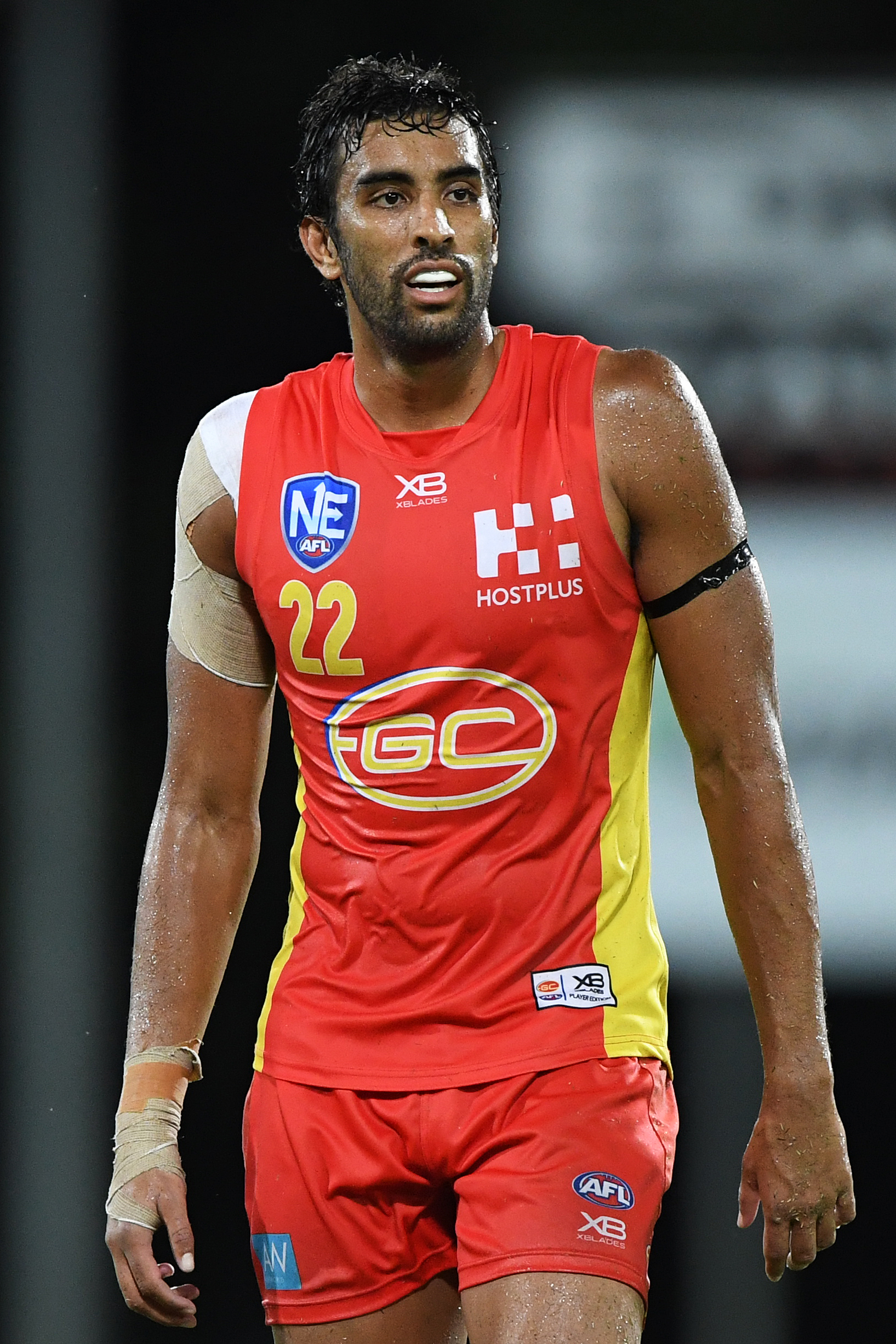 Tom Nicholls of Gold Coast during the 2019 NEAFL round 5 match between NT Thunder and Gold Coast at TIO Stadium on Saturday, 4 May 2019 in Darwin, Australia.